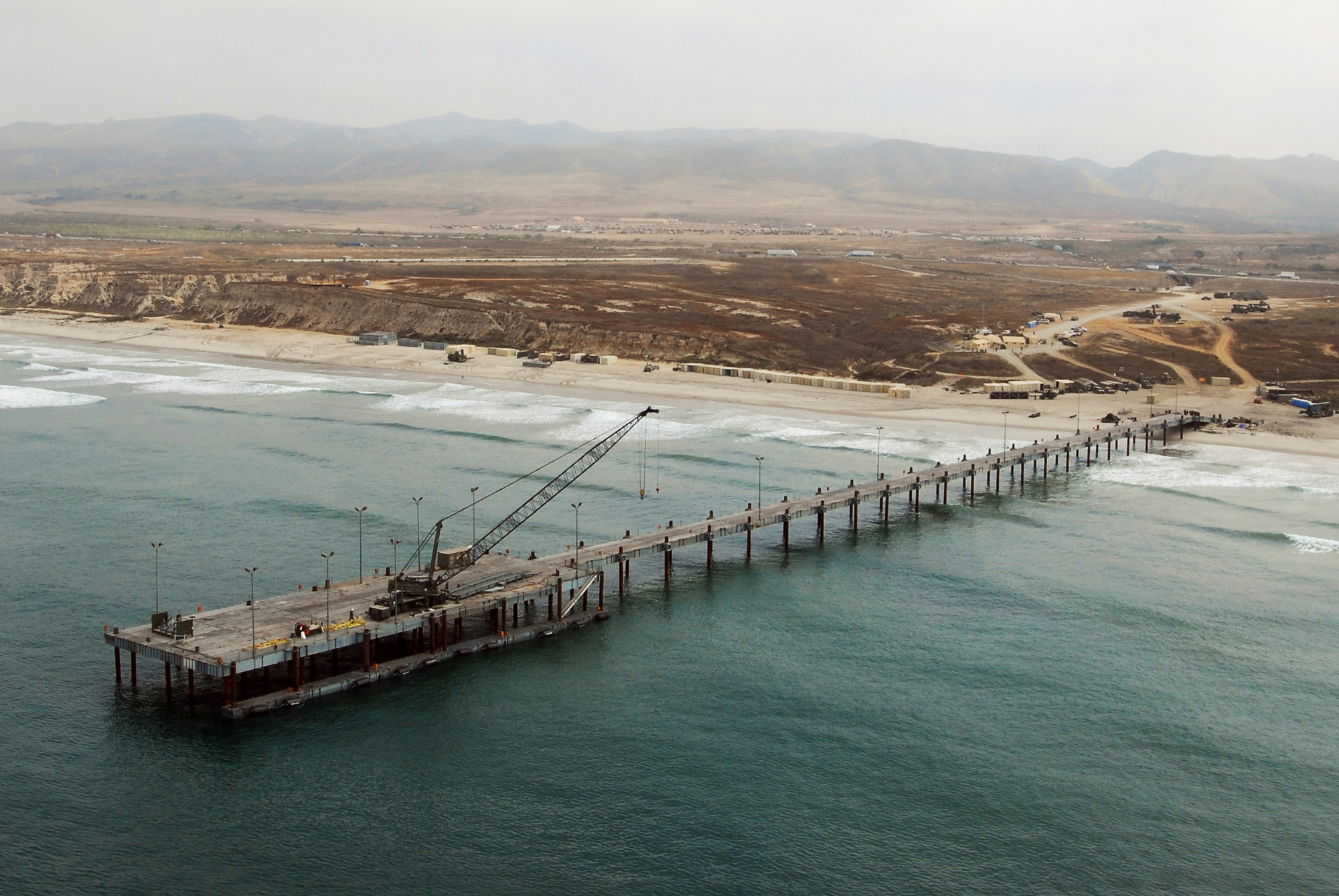 The Navy Elevated Causeway System is one of many pieces of equipment that will serve as part of the improvised port during Joint Logistics Over The Shore 2008. The Seabee's crane on the ELCAS lifts the vehicles and containers from the lighterage and smaller ships and provides a conduit to the shore. JLOTS is an annual exercise that increases the Army's and Navy's ability to build improvised ports for transporting equipment from ship to shore when a harbor or pier has been damaged or is nonexistent. Nearly 1,500 pieces of rolling equipment and shipping containers will be moved from ships with a series of lighterage systems (floating roadways) and smaller boats to improvised piers on the shore. (U.S. Army photo by Sgt. Stephen Proctor, JLOTS Public Affairs) The exercise described took place at Camp Pendleton, CA, see File:USNS Pililaau at Camp Pendleton.jpg and The Army's press release on it.